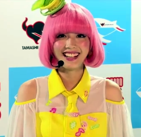 Poppy Pipopapo, Character of the Kamen Rider Ex-Aid, attended the Tamashii Nation 2016 at Akihabara UDX in Chiyoda Ward, Tōkyō Metropolis on October 28, 2016.